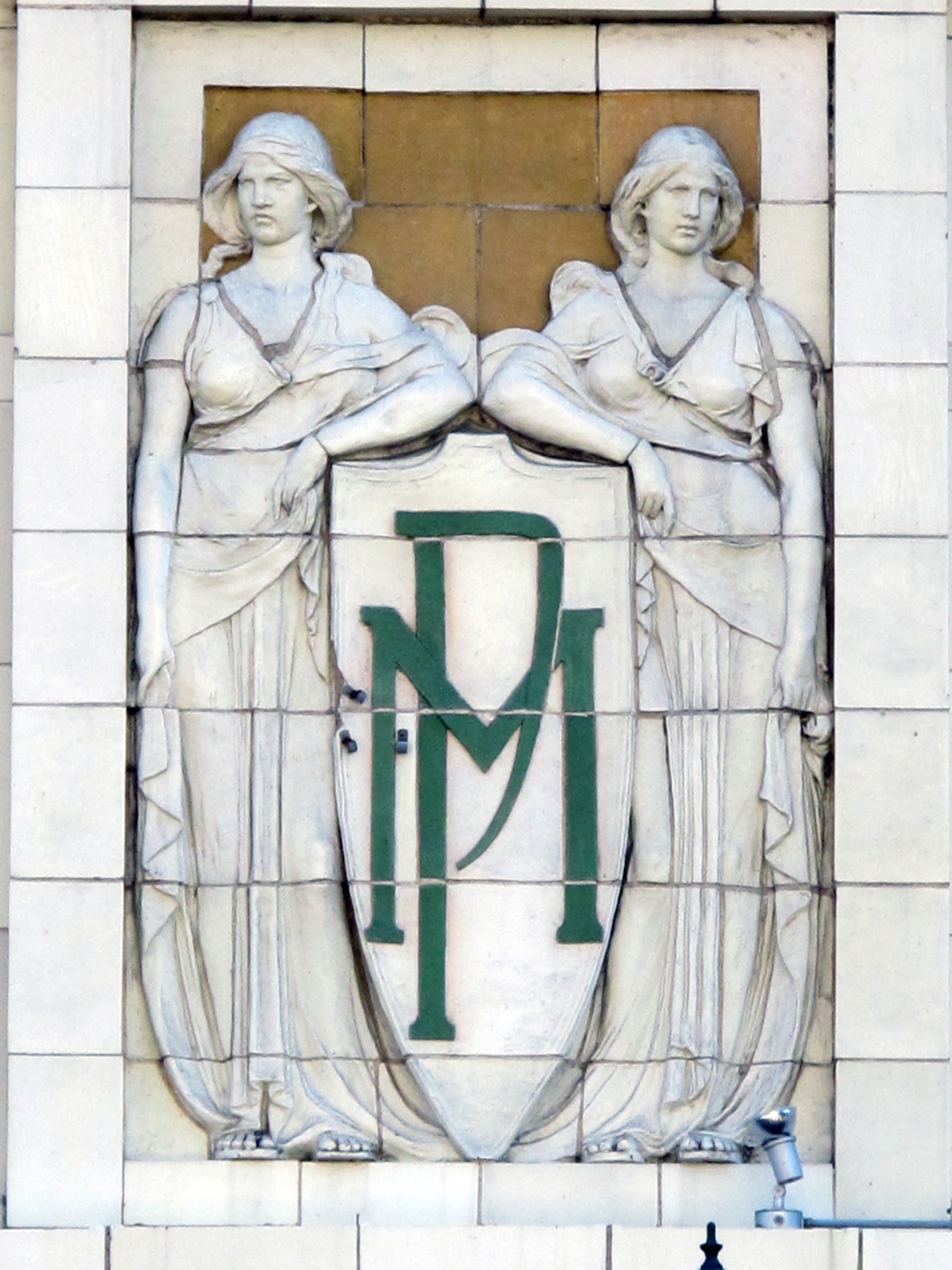 One of two Miller & Paine crests; as seen on the north side, second floor level of the Miller & Paine Building, 1249 "O" Street, Lincoln, Nebraska, USA.